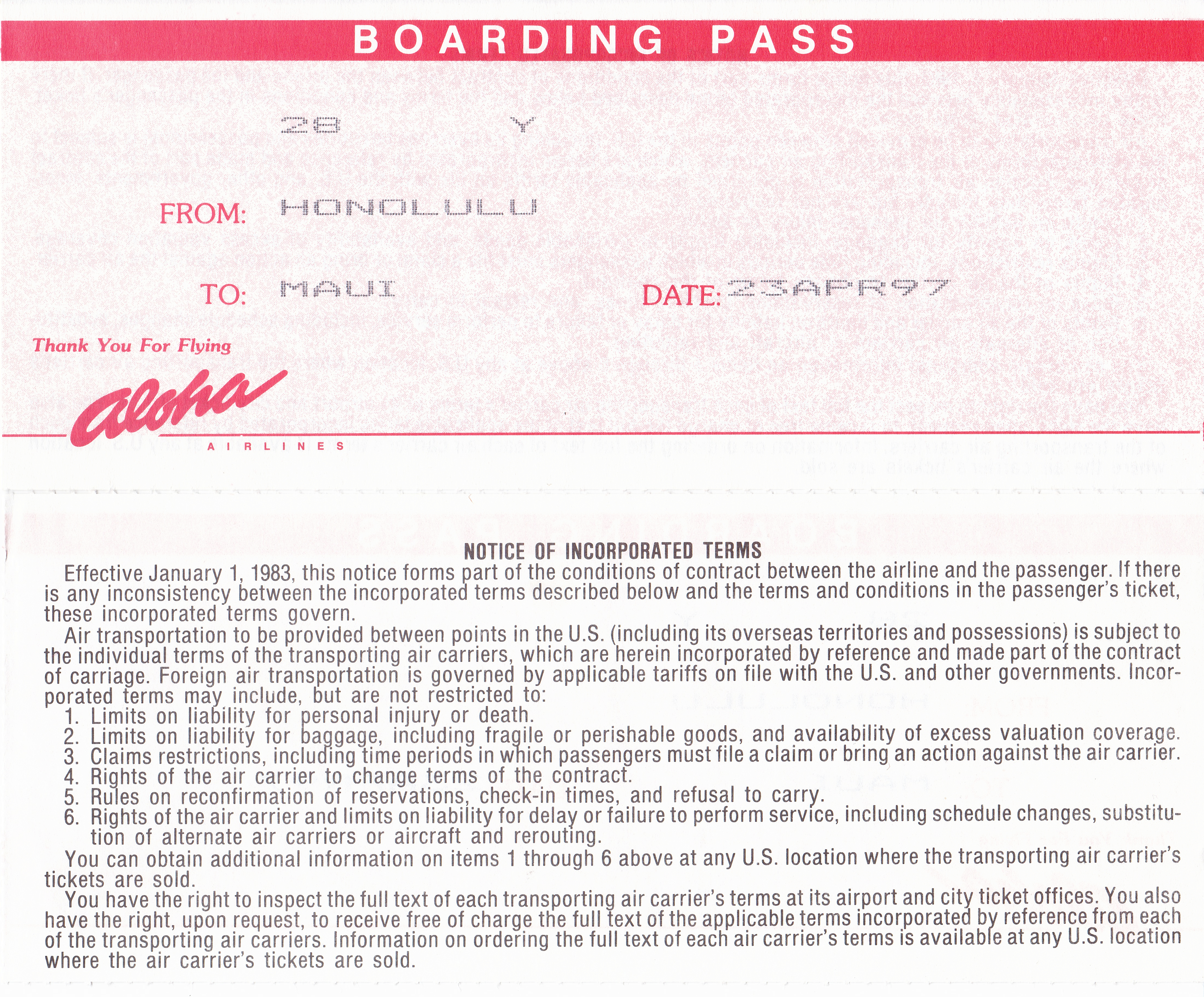 Aloha Airlines Boarding Pass (4/23/1997)